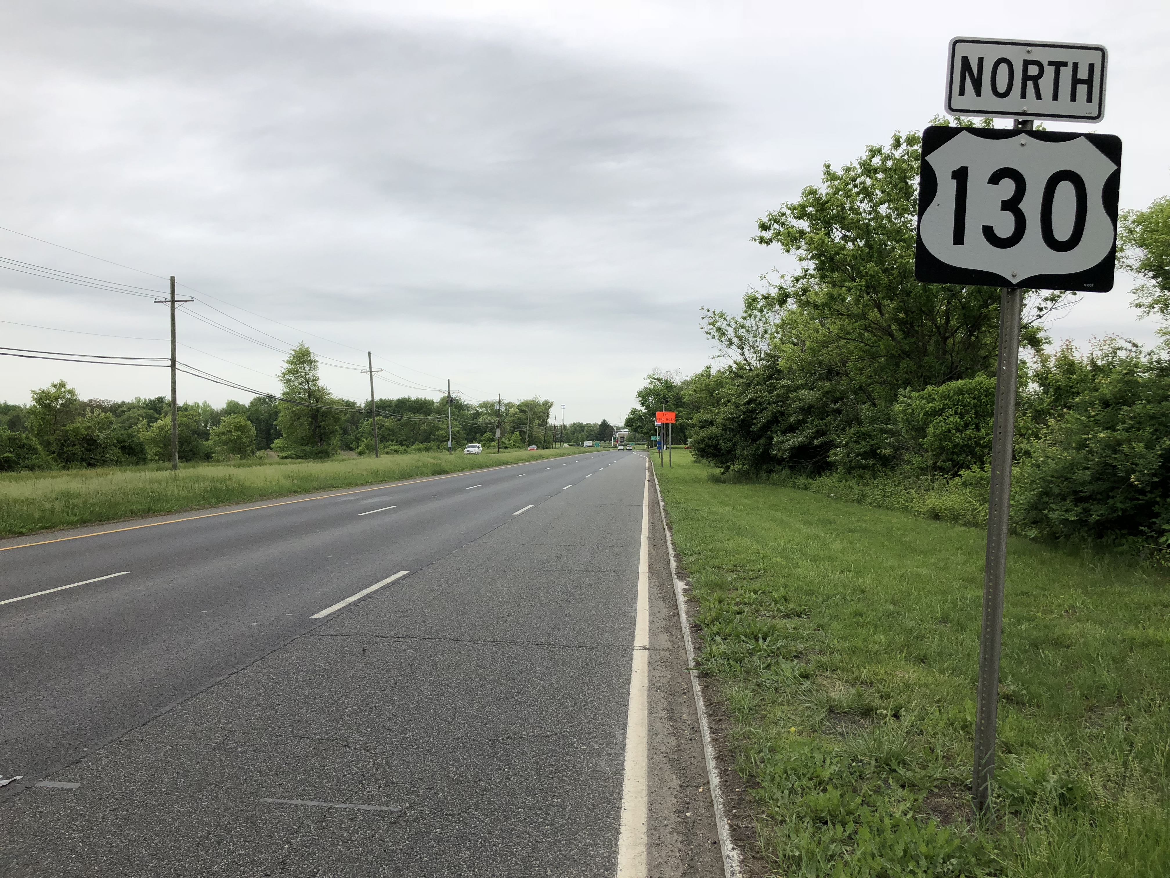 View north along U.S. Route 130 just north of New Jersey State Route 32 (Forsgate Drive) in South Brunswick Township, Middlesex County, New Jersey